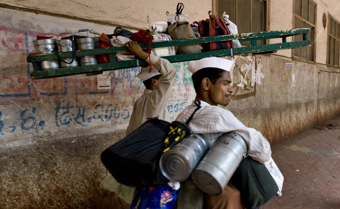 The famous Dabbawala or Tiffin Wallahs of Mumbai... Tiffin Wallah translates as one who carries the box. Tiffin is an old English word for a light lunch, and also the name of the multi-compartment metal lunch box that carries it. The Tiffin Wallah originated over a century ago when the many Indians working for British companies disliked the food served at work. Tiffin service was created to bring home cooking to the workplace. Today the city's 5,000 tiffin-wallahs deliver 200,000 tiffin-boxes filled with home-cooked food each day. According to a recent survey, there is only one mistake in every 16,000,000 deliveries and the system has registered a performance rating of 99.999999. Prince Charles is a fan and patron of the Tiffin Wallahs and countless businesses and corporations study the system to learn of its success and efficiency.